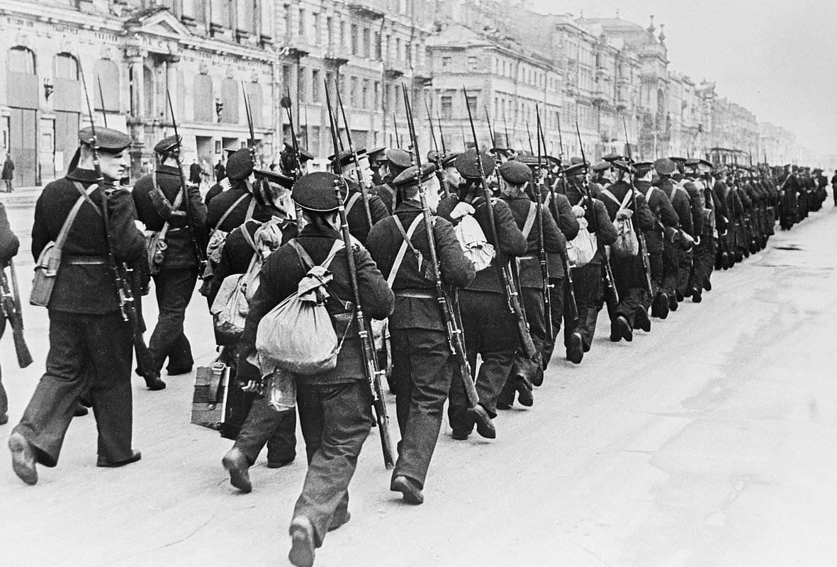 “Sailors going to the front”. Sailors going to the front. Leningrad.